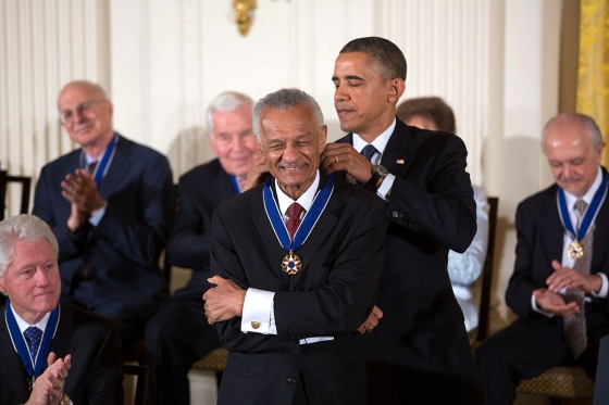 President Barack Obama delivers awards the 2013 Presidential Medal of Freedom to Cordy Tindell “C.T.” Vivian, during a ceremony in the East Room of the White House, Nov. 20, 2013.